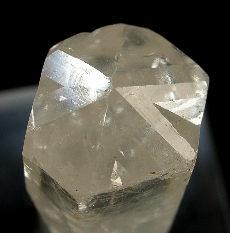 Phenakite Locality: Mogok, Pyin Oo Lwin District, Mandalay Division, Burma (Myanmar) (Locality at ) Size: miniature, 3.2 x 1.6 x 1.4 cm Phenakite (twinned) Out of all phenakite locales, these Mogok crystals stand in a unique place because of their sharp twinning about the long axis, easily visible in the complex, spoked terminations. This is a superb, gemmy, sharply twinned single crystal of phenakite, 12 grams in mass. The crystal here is exceptional in size and gemminess, and comes from the first trickle out of here in 2008 or so. Since that time, a few small pockets have been hit, sparse and intermittently worked. But no major or large find has turned up and these continue to be hard to obtain. This is a superb example, and quite distinct from phenakite from other locales.